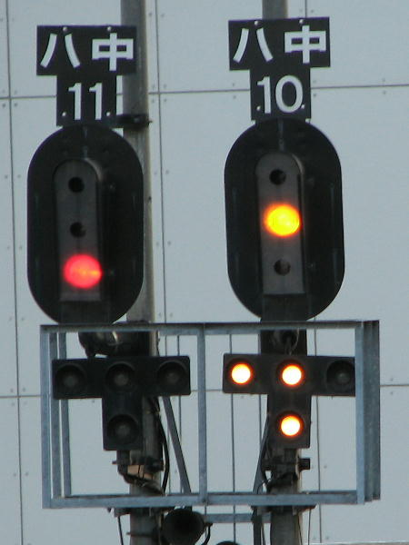 Starting signal at track 10/11, Sapporo station. Route indicator for track 10 displays left route